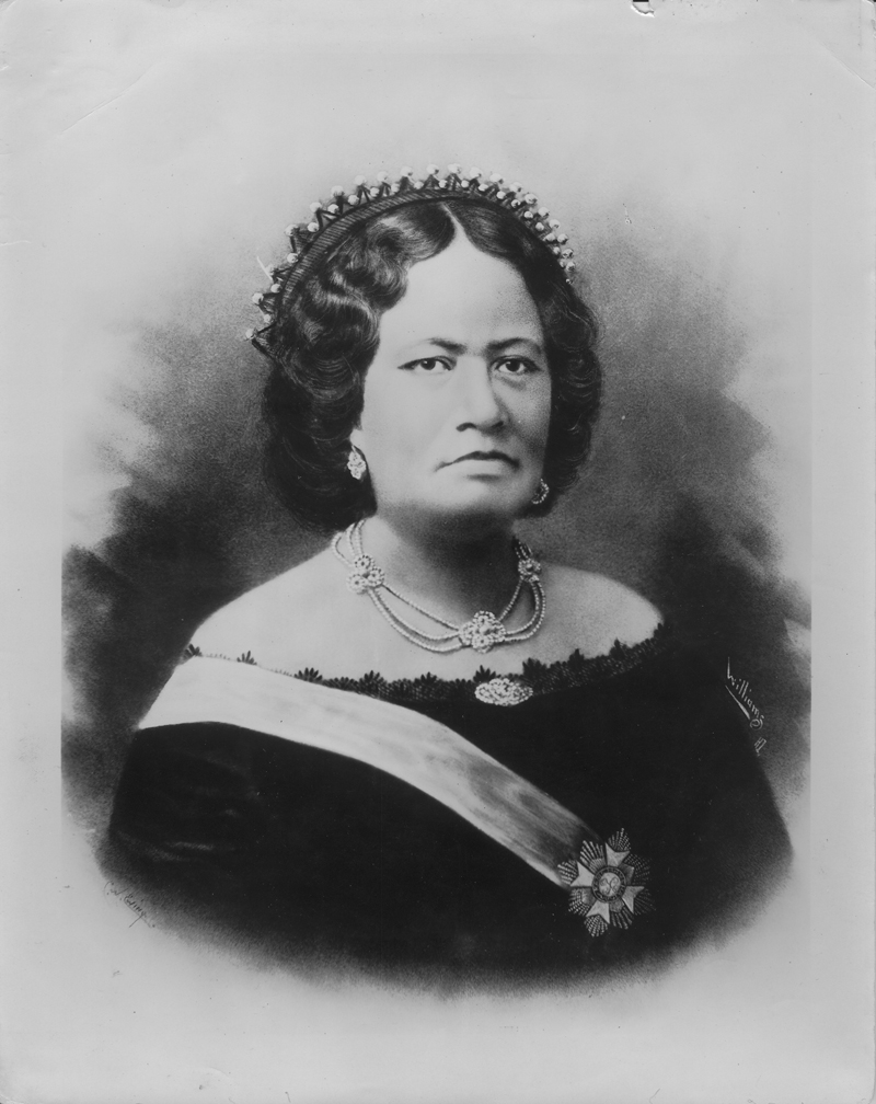 Queen Kalama of Hawaii.